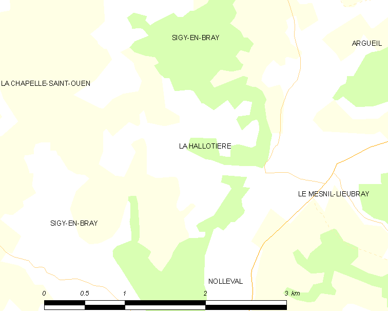 Map of French municipality La Hallotière